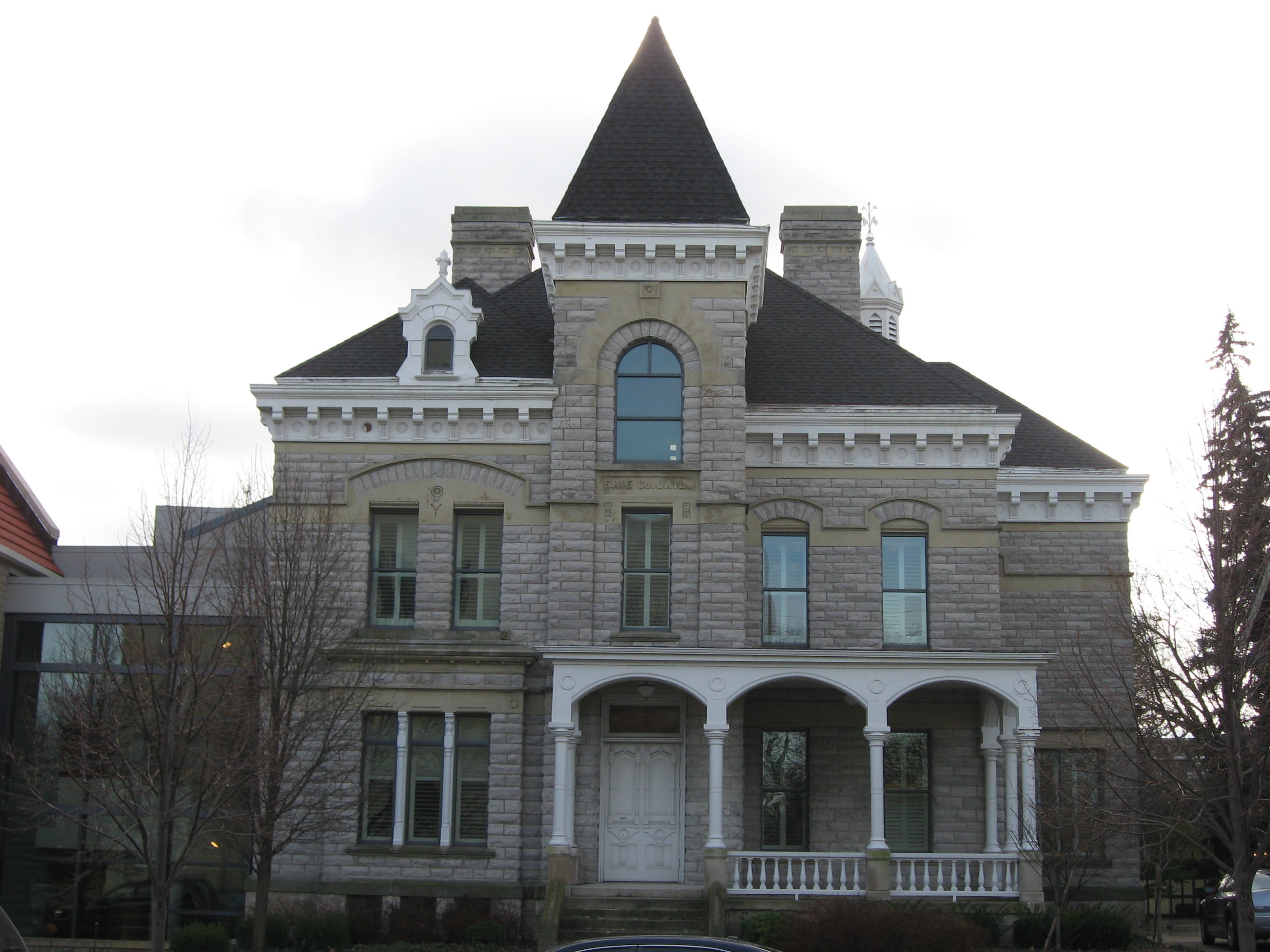 Front of the former Erie County Jail (now a part of the Sandusky Library), located at 204 W. Adams Street in Sandusky, Ohio, United States. Built in 1883, it is listed on the National Register of Historic Places.